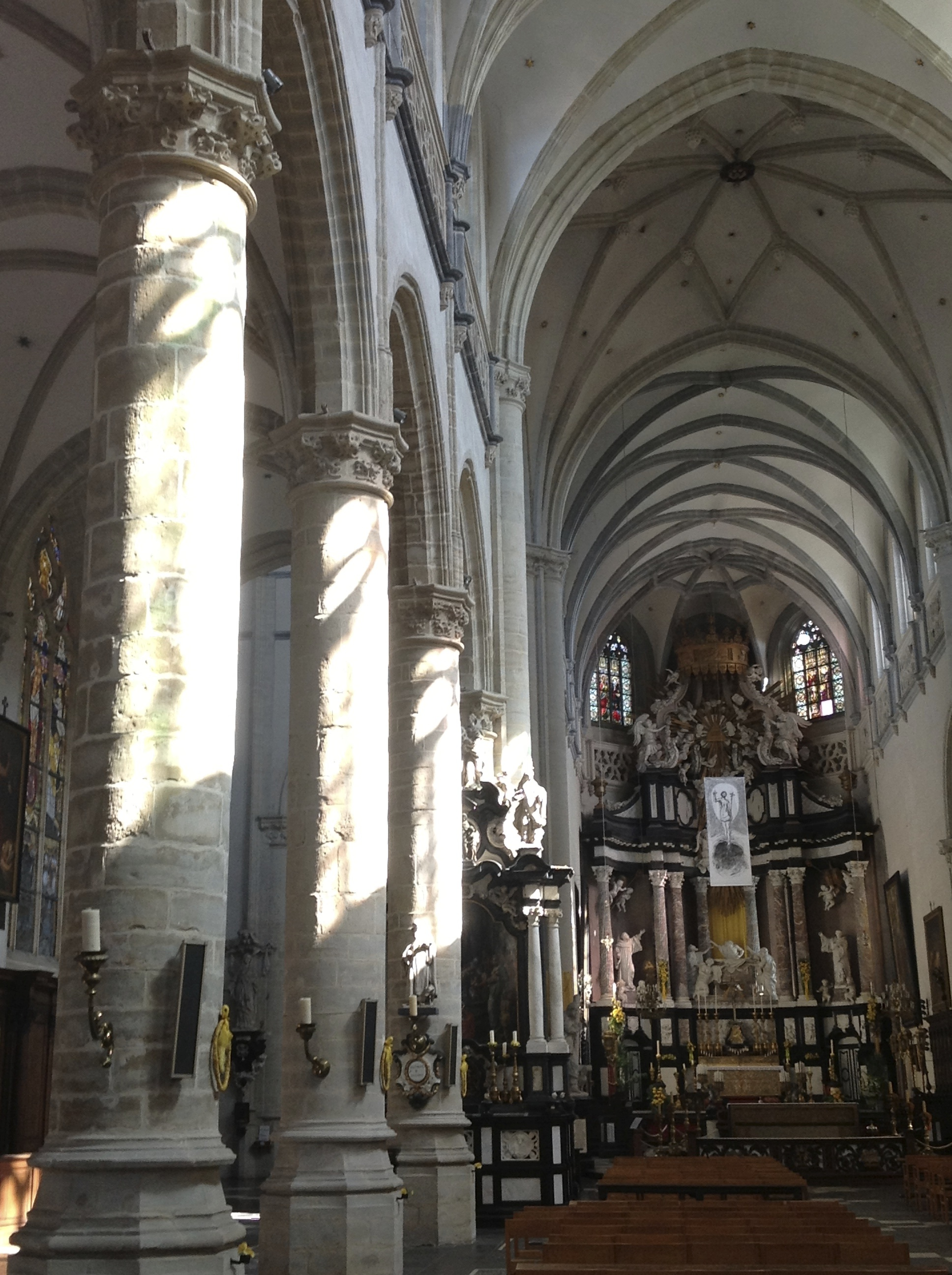 This photograph shows the Interior of St. Andrew's Church in Antwerp including the alter, cieling and seating area.